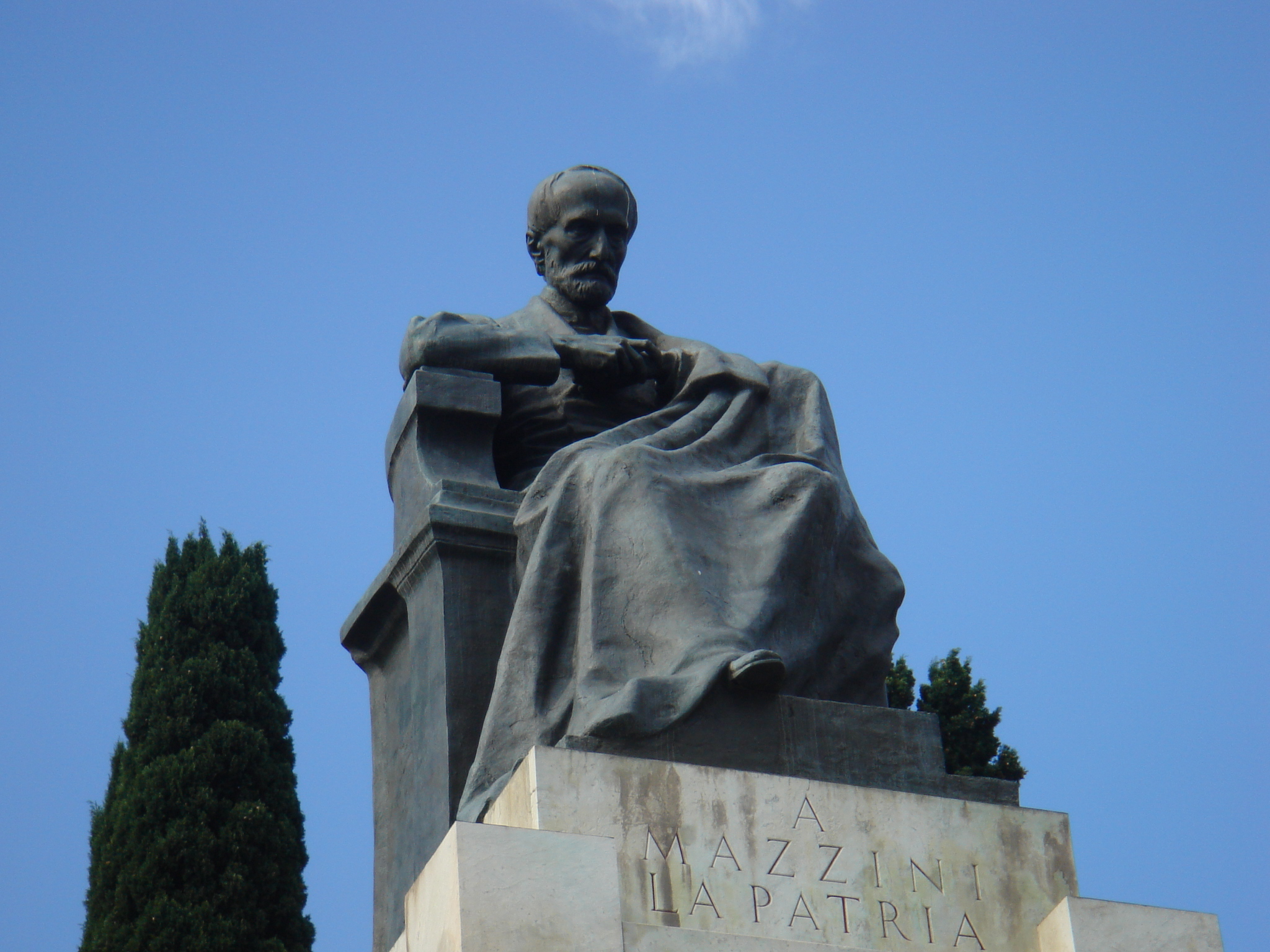 Rome, monument to Giuseppe Mazzini Aventine (Circo Massimo). work of Ettore Ferrari of 1909, settled in the present location in 1949.